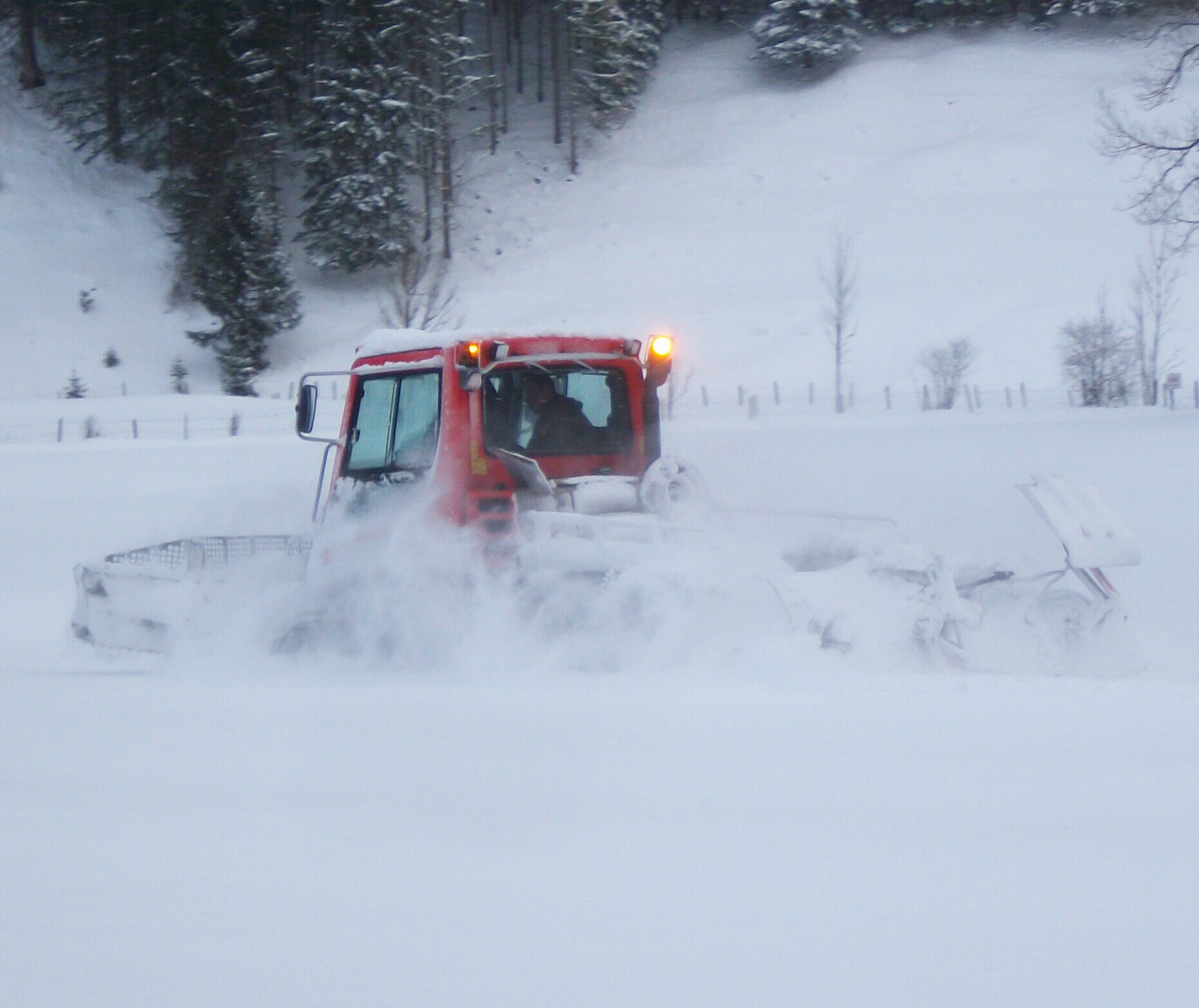 Snow groomer Pistenbully 100 with cross-country track setter